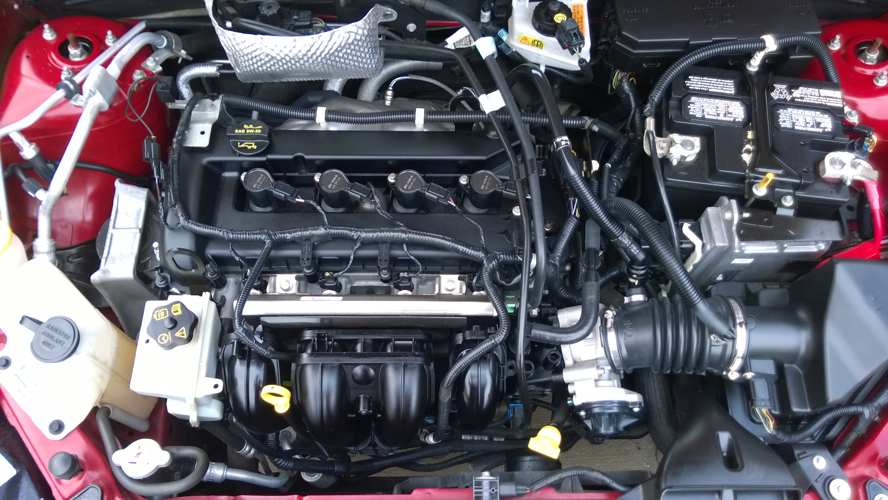 2009 Ford Focus SES coupe (North America) engine bay, featuring the 2.0 L Duratec 20